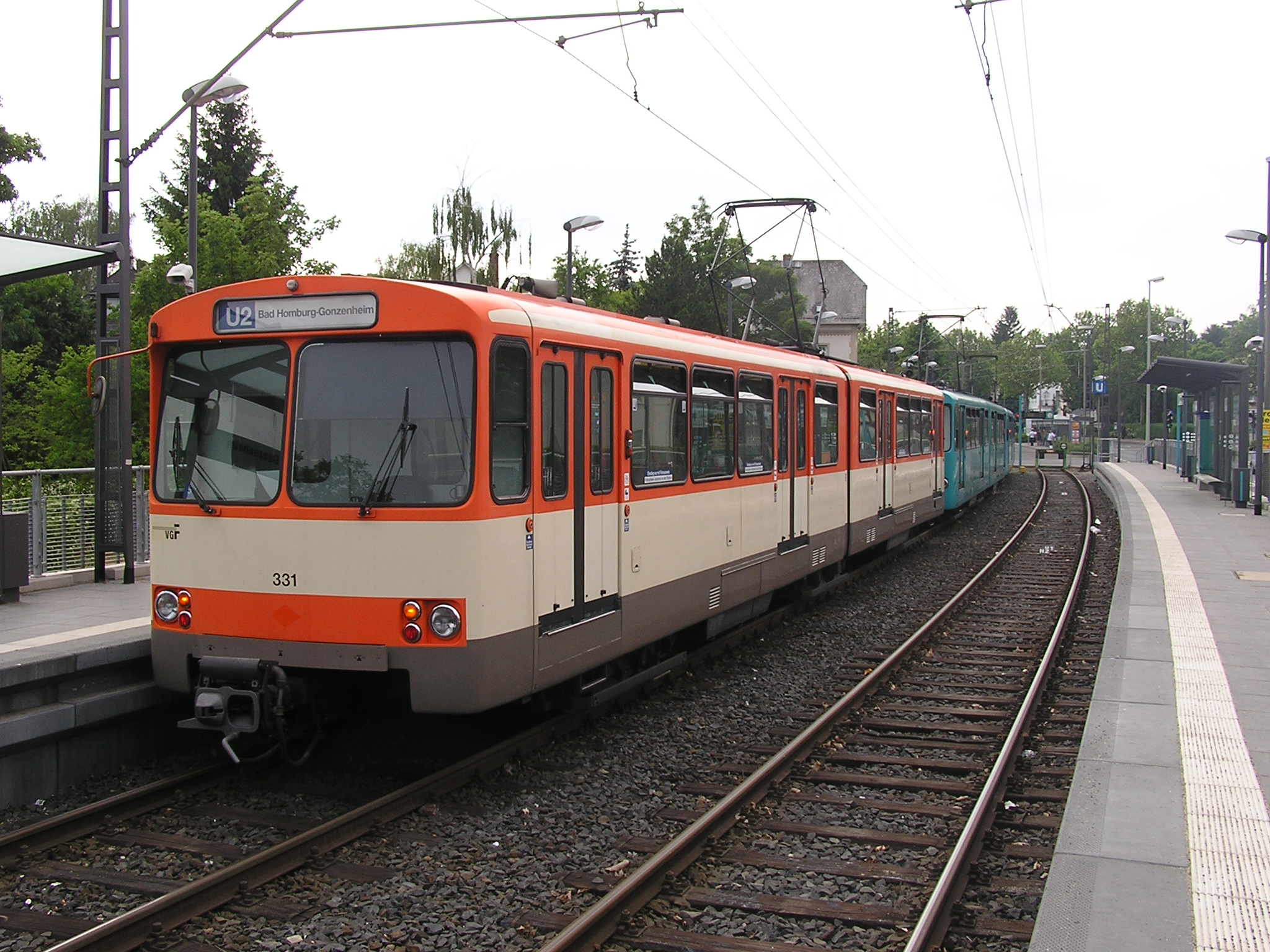 U2-car 331 as line U2 in Bad Homburg-Gonzenheim